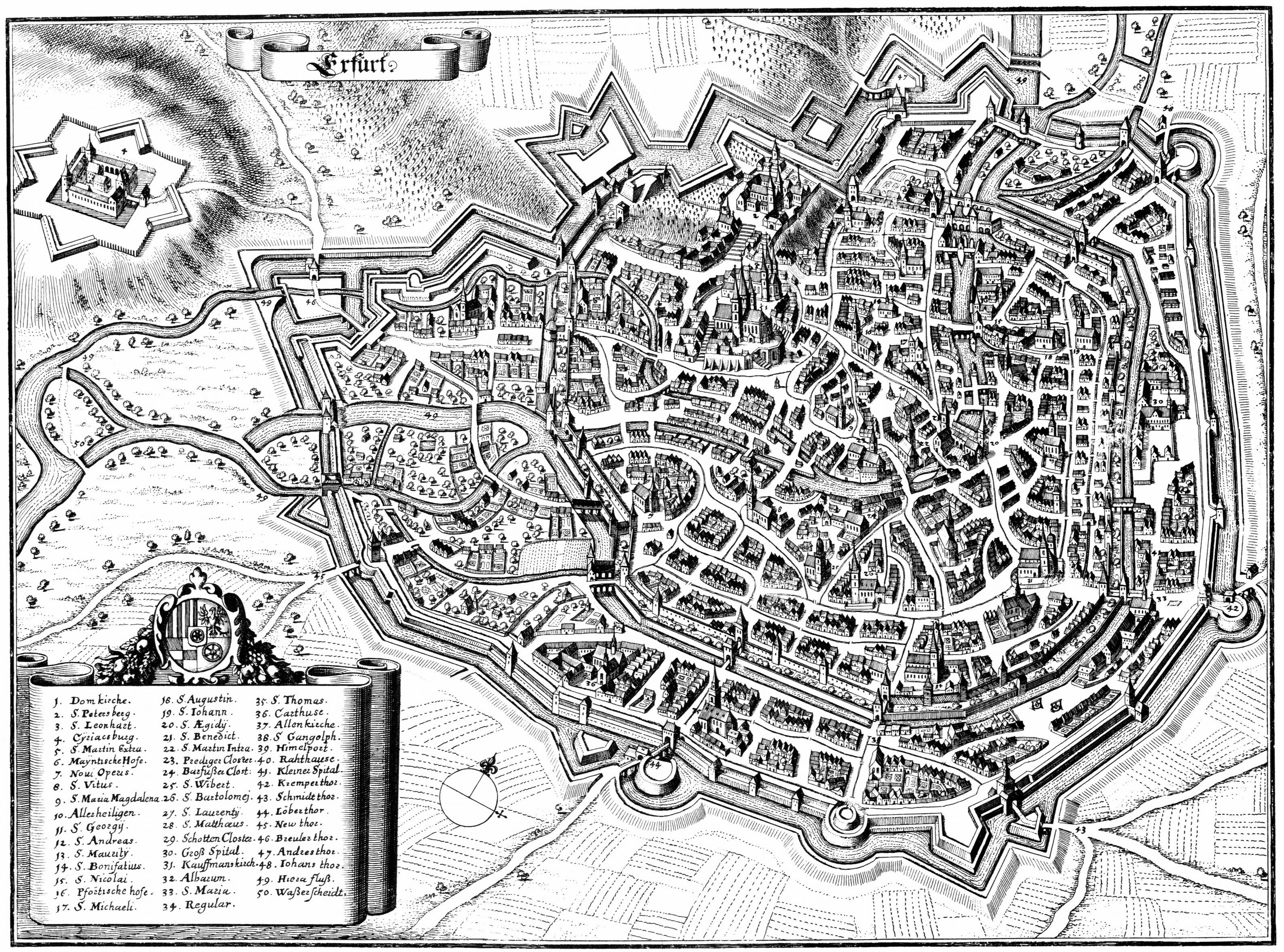 Erfurt